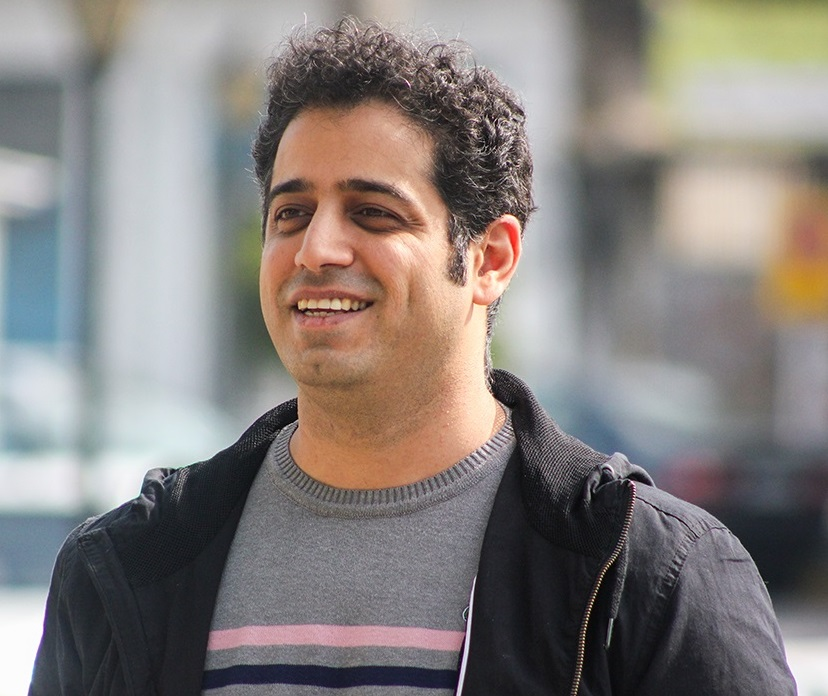 Grandmaster Ehsan Ghaem-Maghami giving a simultaneous exhibition, Sanchi Martyrs Memorial at Passenger Terminal Hall of the Ports and Marine Administration of Guilan Province, Rasht - 19 April 2018main album